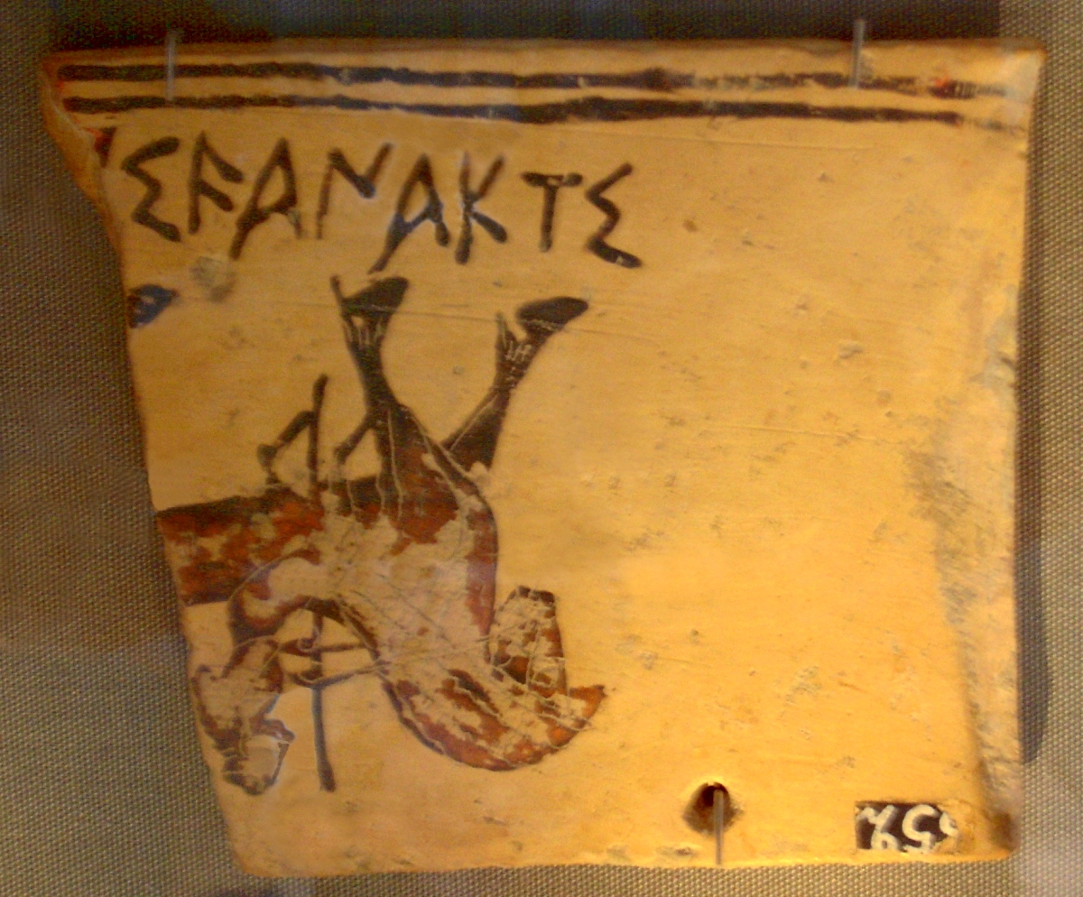 Ancient Greek ceramic fragment depicting a horse with rider. Votive pinax from the sanctuary of Poseidon at Penteskouphia, Corinth (Berlin, Antikensammlung F.552; Inscriptiones Graecae IV.220 [1]) The inscription reads [ΠΟΤΕΙΔΑΝ]Ι ϜΑΝΑΚΤΙ ([poteidan]i wanakti, "to the King Poseidon"), a dative form corresponding to the word ἄναξ anax ("king") in Attic. The inscription is in the archaic Corinthian dialect, employing the archaic letter Digamma for w, and a local Σ-shaped form of iota.